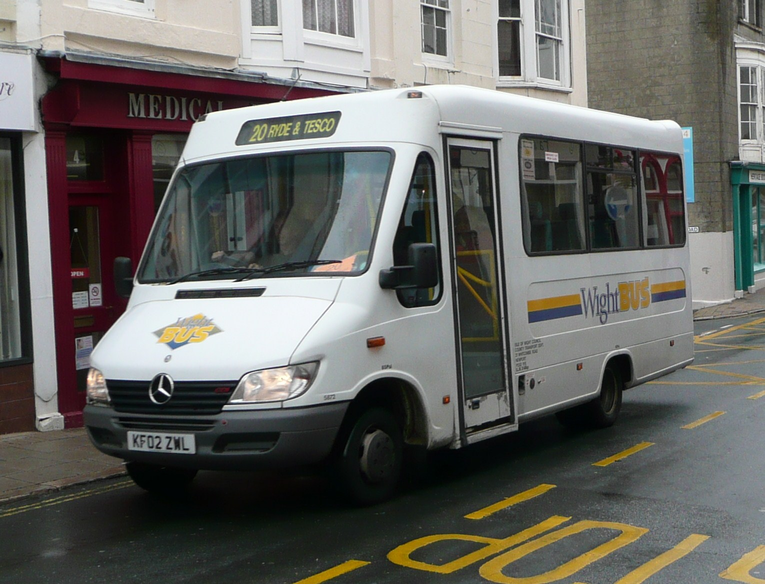 Wightbus 5872 (KF02 ZWL), a Mercedes-Benz Sprinter, in Cross Street, Ryde, Isle of Wight on route 20.